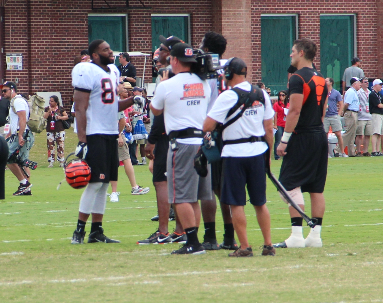 Hard Knocks filming Jermaine Gresham, 2013